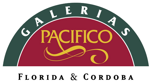 Logo of Galerías Pacífico, a historical shopping mall in Buenos Aires, Argentina.